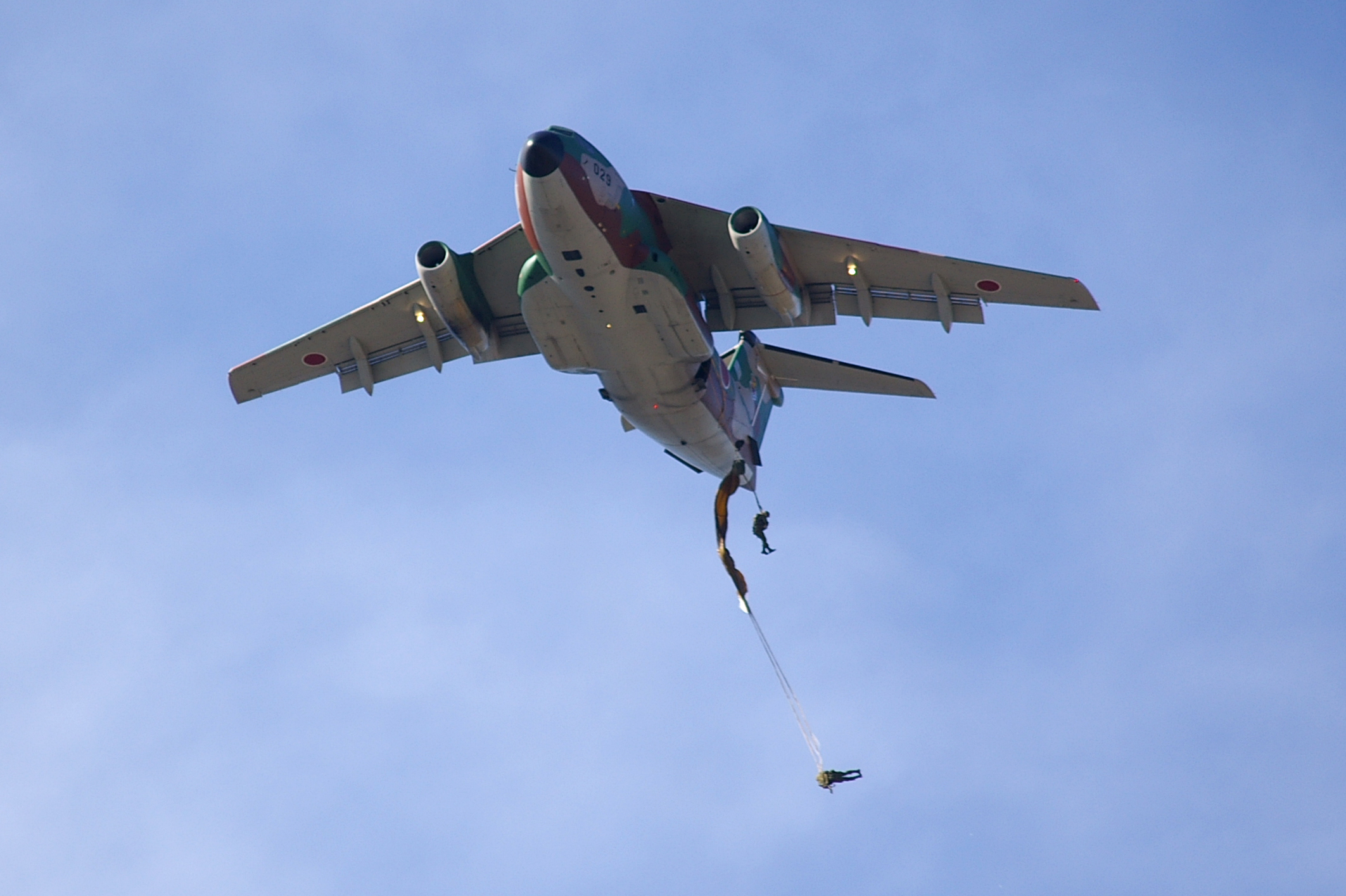 JGSDF 1st Airborne Brigade paratrooper is dropping from JASDF Kawasaki C-1 cargo aircraft. Taken by Los688, in Narashino, Japan, on 7-Jan-2007, JGSDF 1st Airborne Brigade 2007 first drop manuver. 陸上自衛隊 第1空挺団の降下。C-1輸送機から。